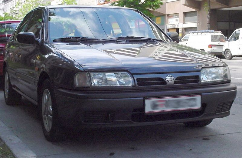 Nissan Primera (P10) 2.0 SLX Hatchback